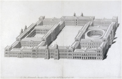 Originally drawn by Ingo Jones in 1638.